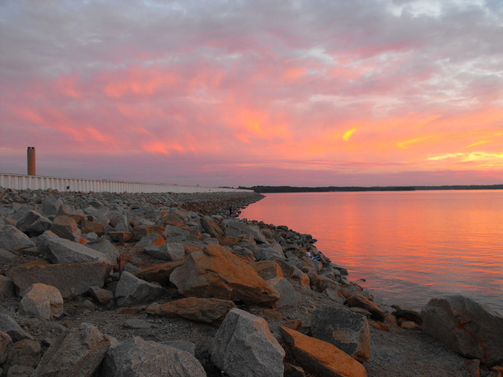 Lake Murray, fall 2008, from the dam.